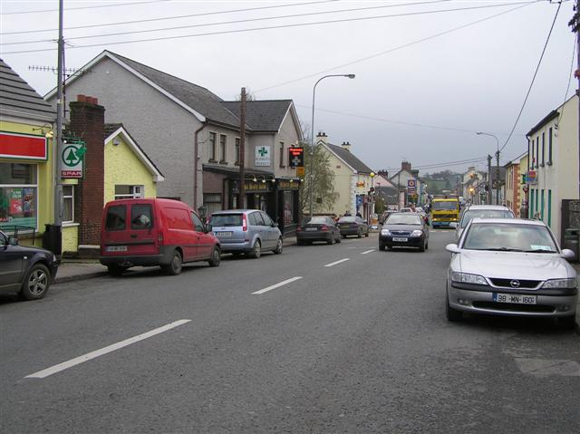 Emyvale, County Monaghan It must have the heaviest traffic in Ireland